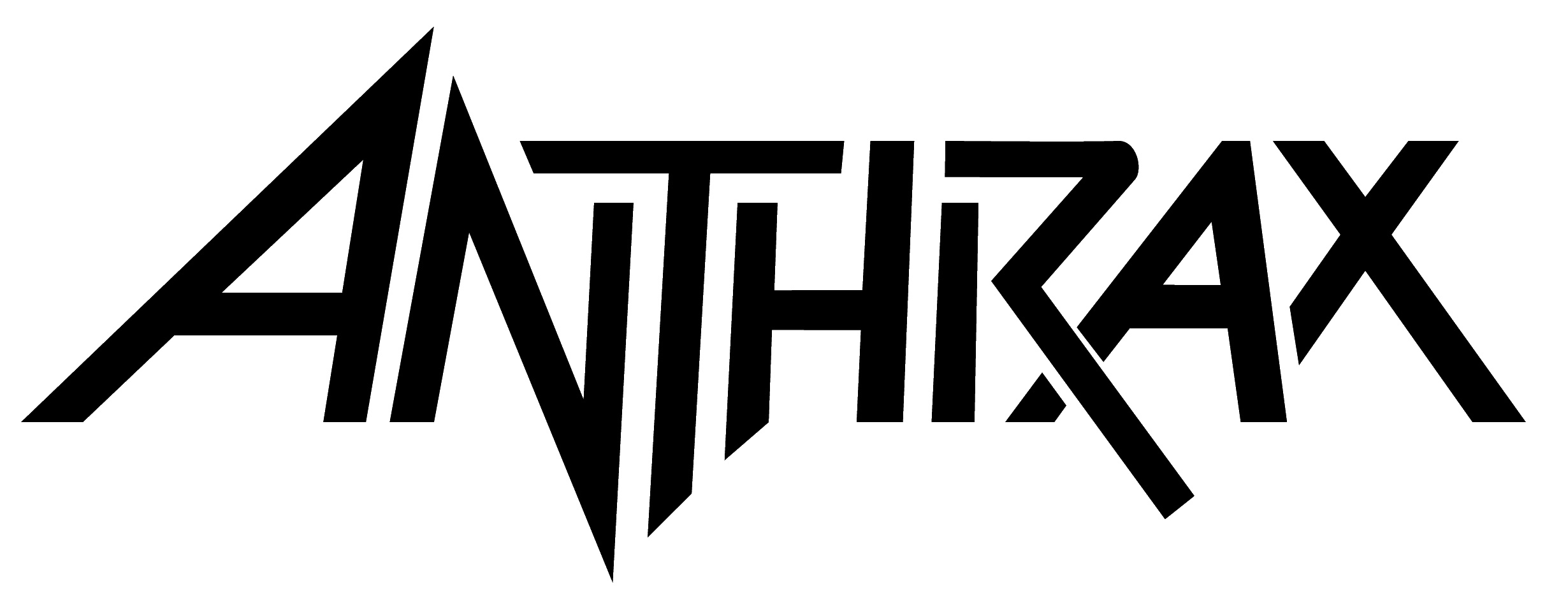 da